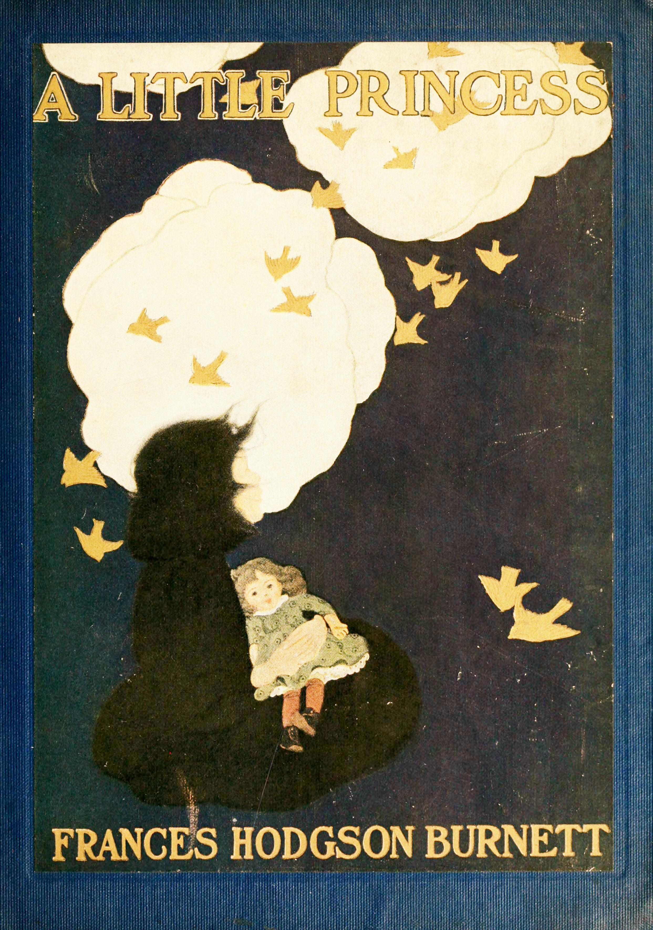 A Little Princess 1st ed cover